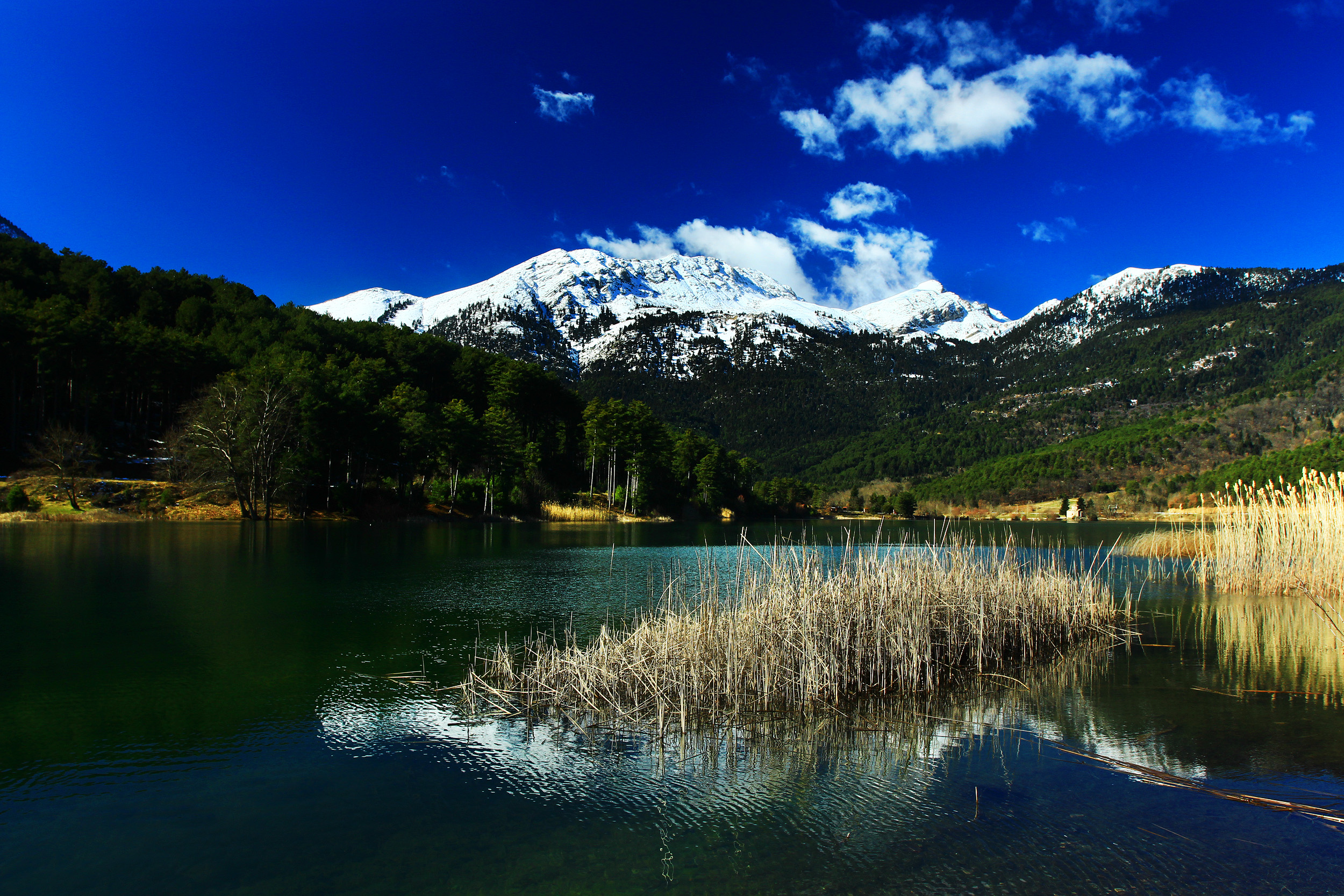 Lake Doxa, on Chelmos Mountain.